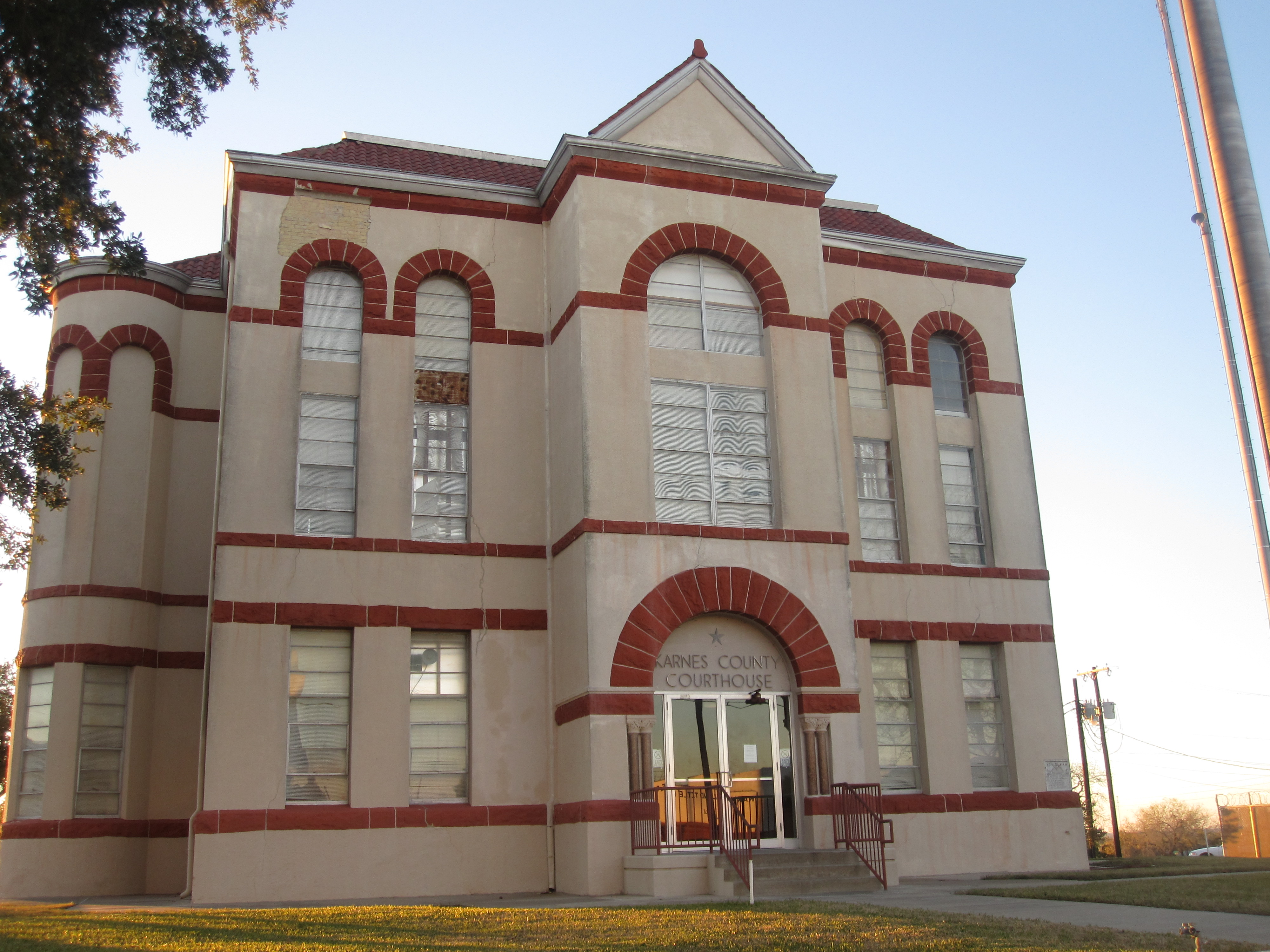 Karnes County, Texas, Courthouse in Karnes City